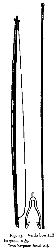 Typical Vedar Bow and arrow converted to Bow and harpoon to catch fish by the Coastal Veddas